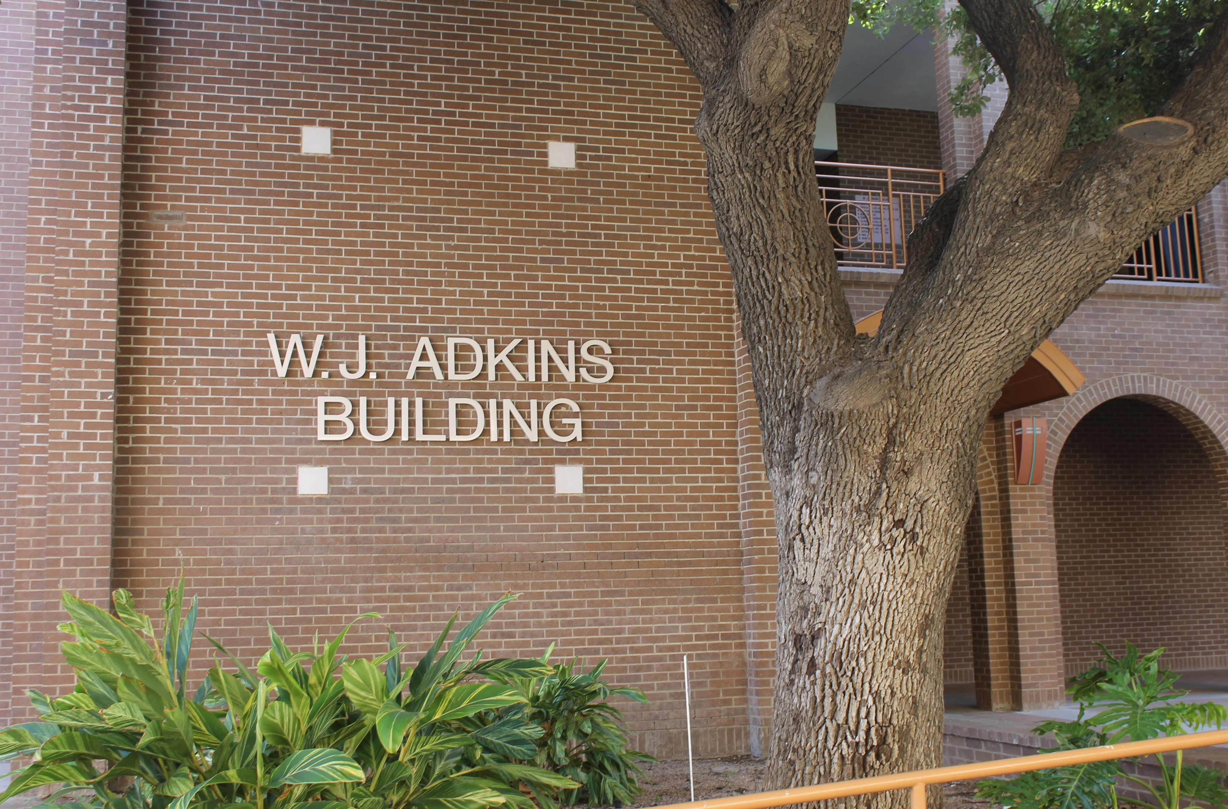 W. J. Adkins Building (English instruction) on Laredo Community College campus